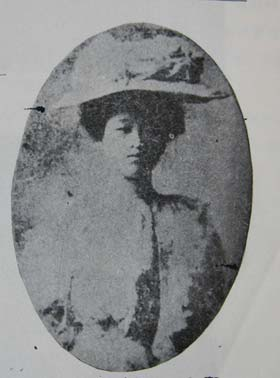 Kim Go-ra, Korean